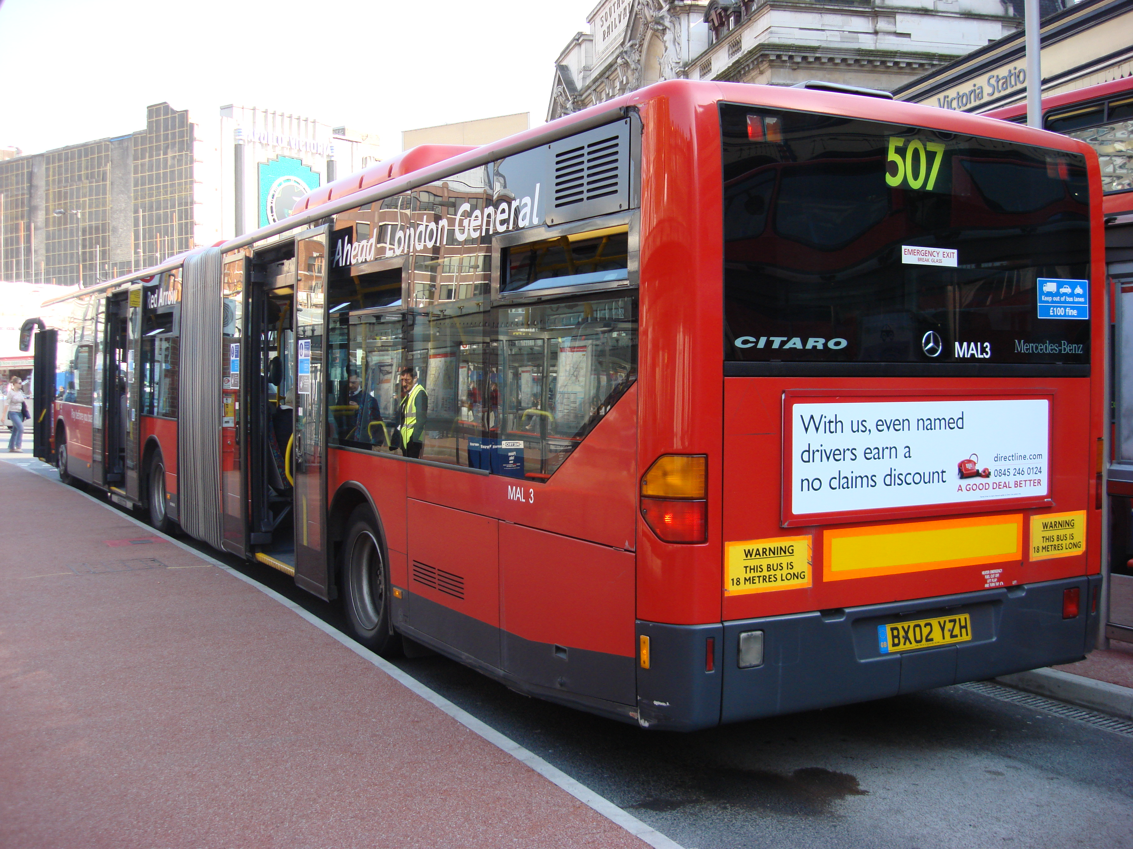 The rear of a Mercedes Citaro articulated bus at Victoria bus station in London